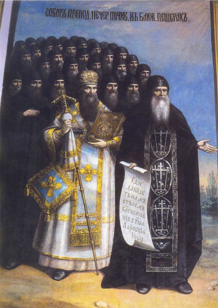 The Synaxis of Kiev Pechersk saints in Near Caves